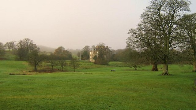 Cumbernauld House and Grounds The site of Cumbernauld House includes three listed assets:- Cumbernauld House, The Doocot and The Sundial